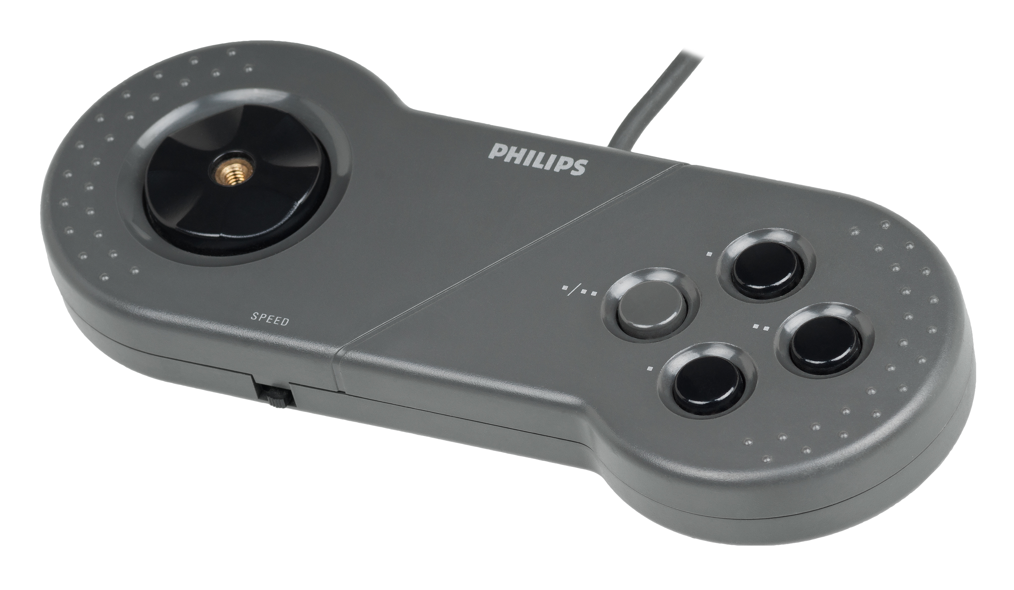 A controller for the Philips CD-i console, shown without the "joystick" attachment on the directional pad.